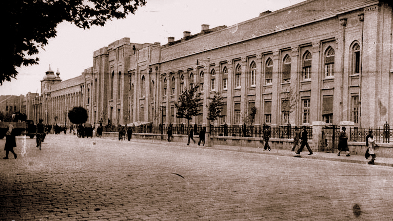 The building of Tehran Communication Museum in Sepah St. Tehran during the 1940s